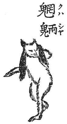 Kasha (火車, a cat-like demon that descends from the sky and carries away corpses) from the BŌsōmanroku (茅窓漫録)